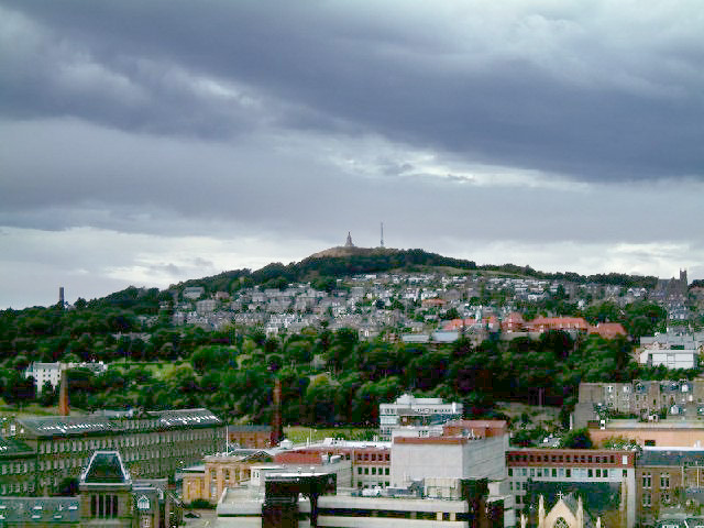 The Dundee Law. The Dundee Law War memorial viewed from St. Mary's Tower. Cox's Stack another landmark is seen in the left Skyline